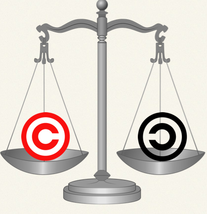 The header for the copyright book on the simple english wikibooks